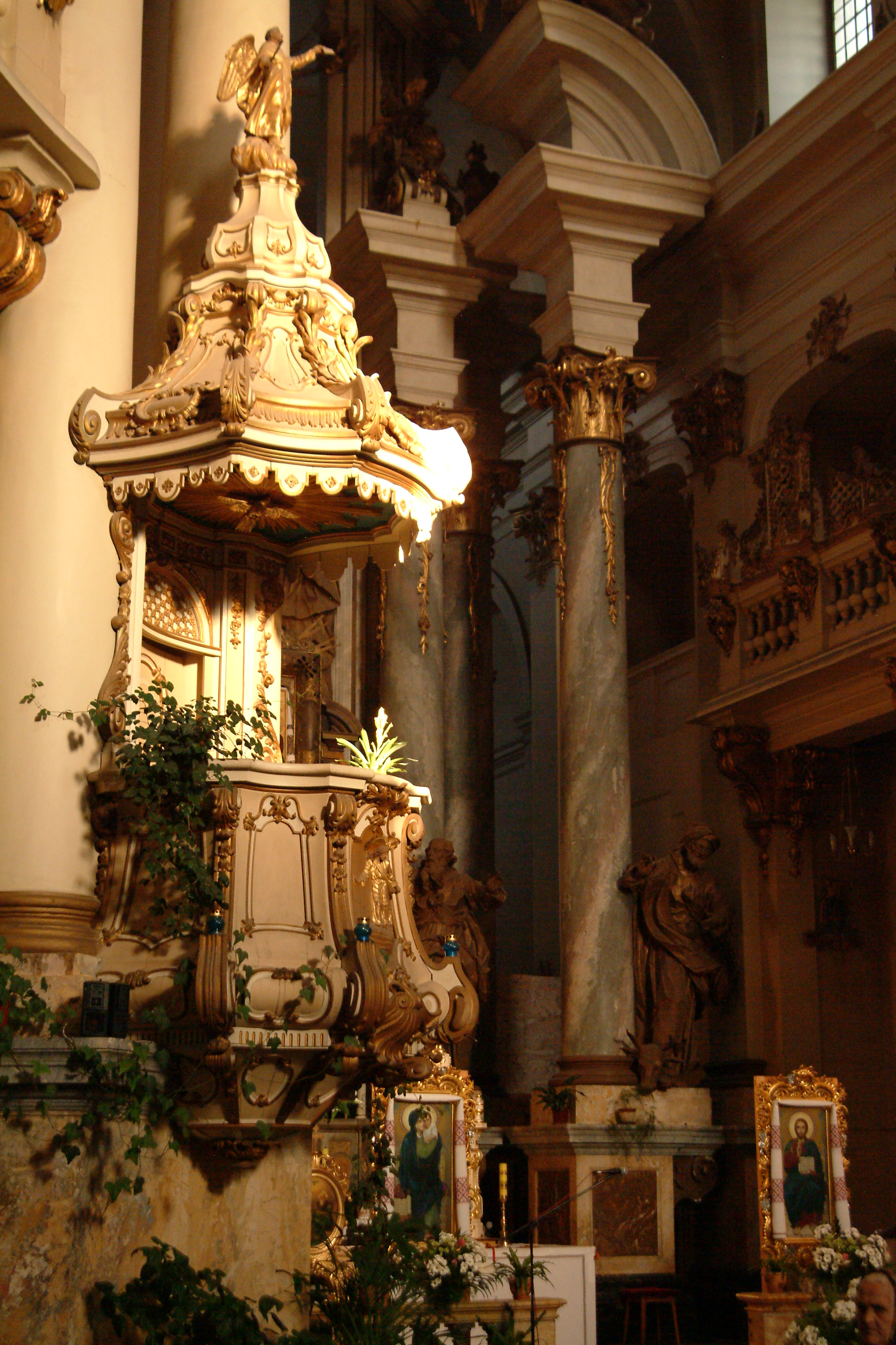 Ambo in Dominicans Church - Lvov, Ukraine